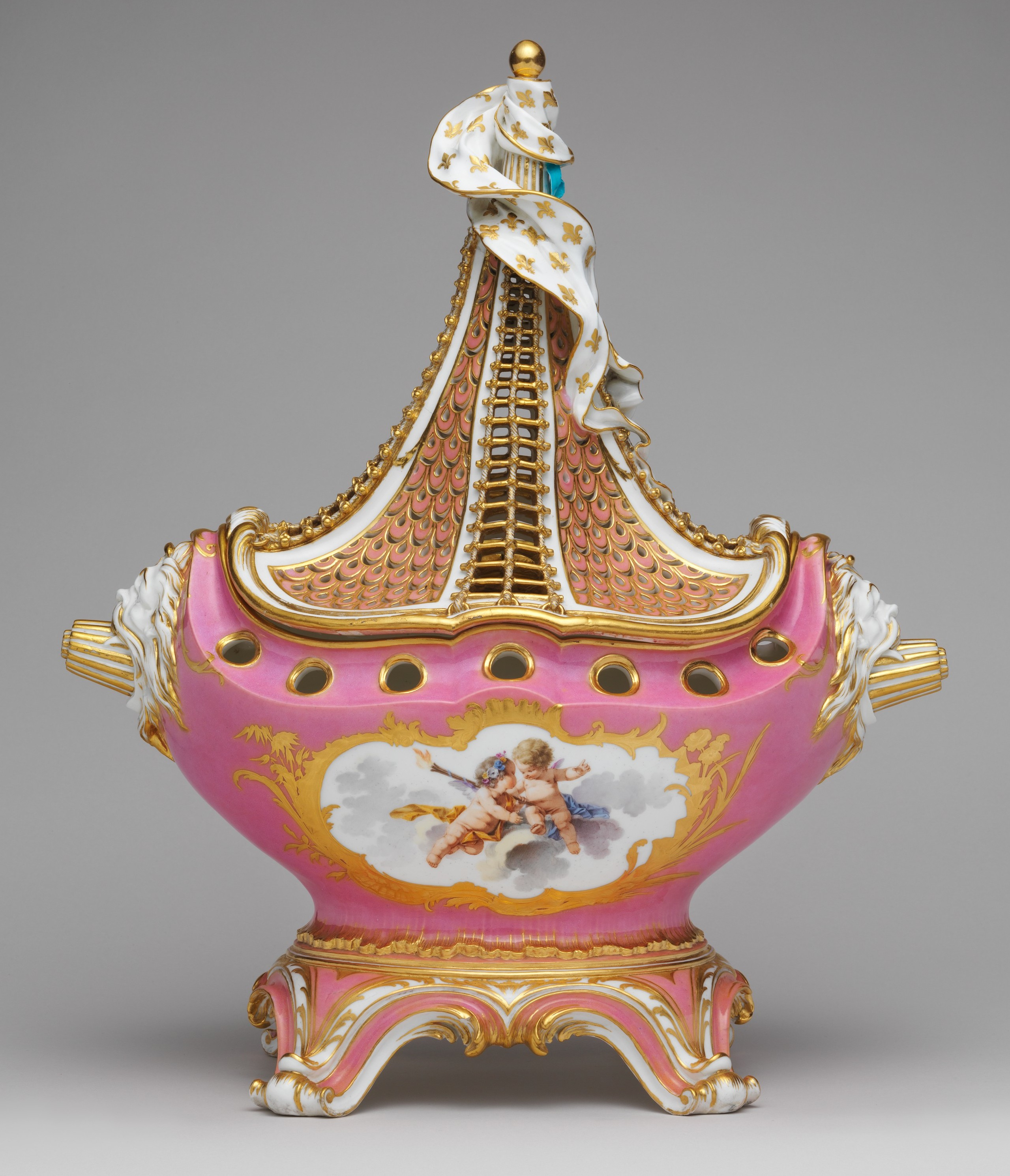 French, Sèvres; Vase; Ceramics-Porcelain